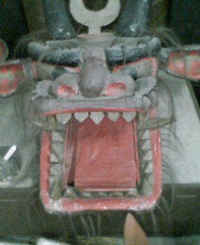 A mask of Ushioni (牛鬼), the Cow Demon, one of the many used throughout history during the bullfighting festival in Uwajima, Japan. Picture taken by original uploader at Uwajima castle.